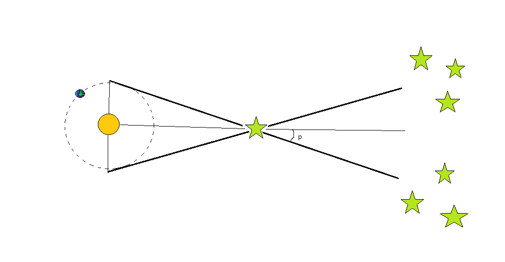 A simple description of the parallax method.